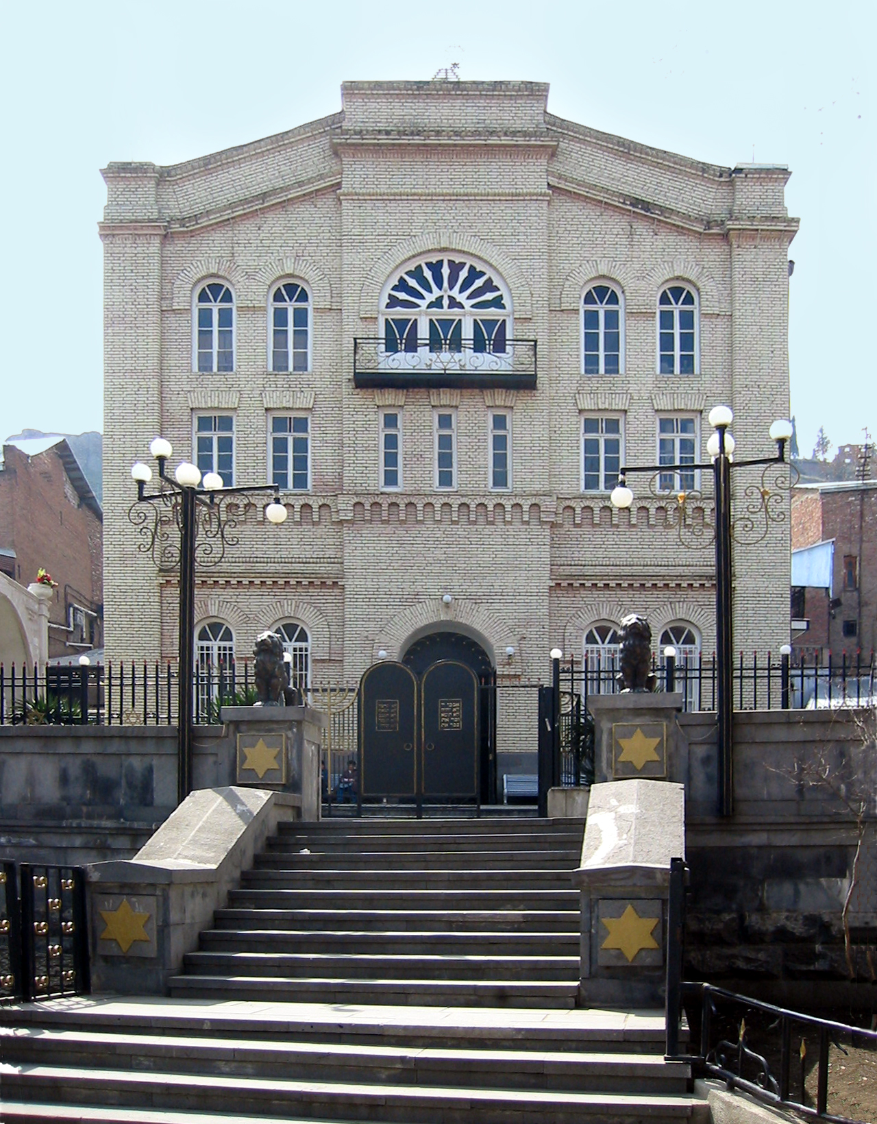 Exterior of the Great Synagogue (Tbilisi).